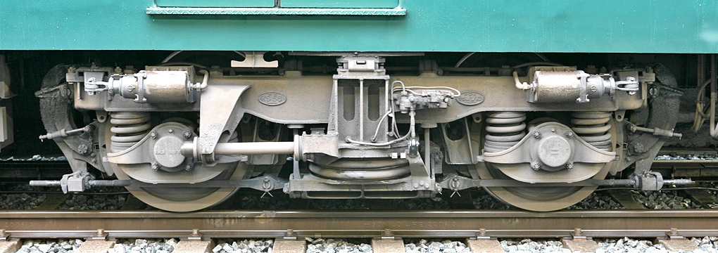 Kisya Seizo type KS58 bogie truck of Keihan 2600 Series EMU ( 2821 ).